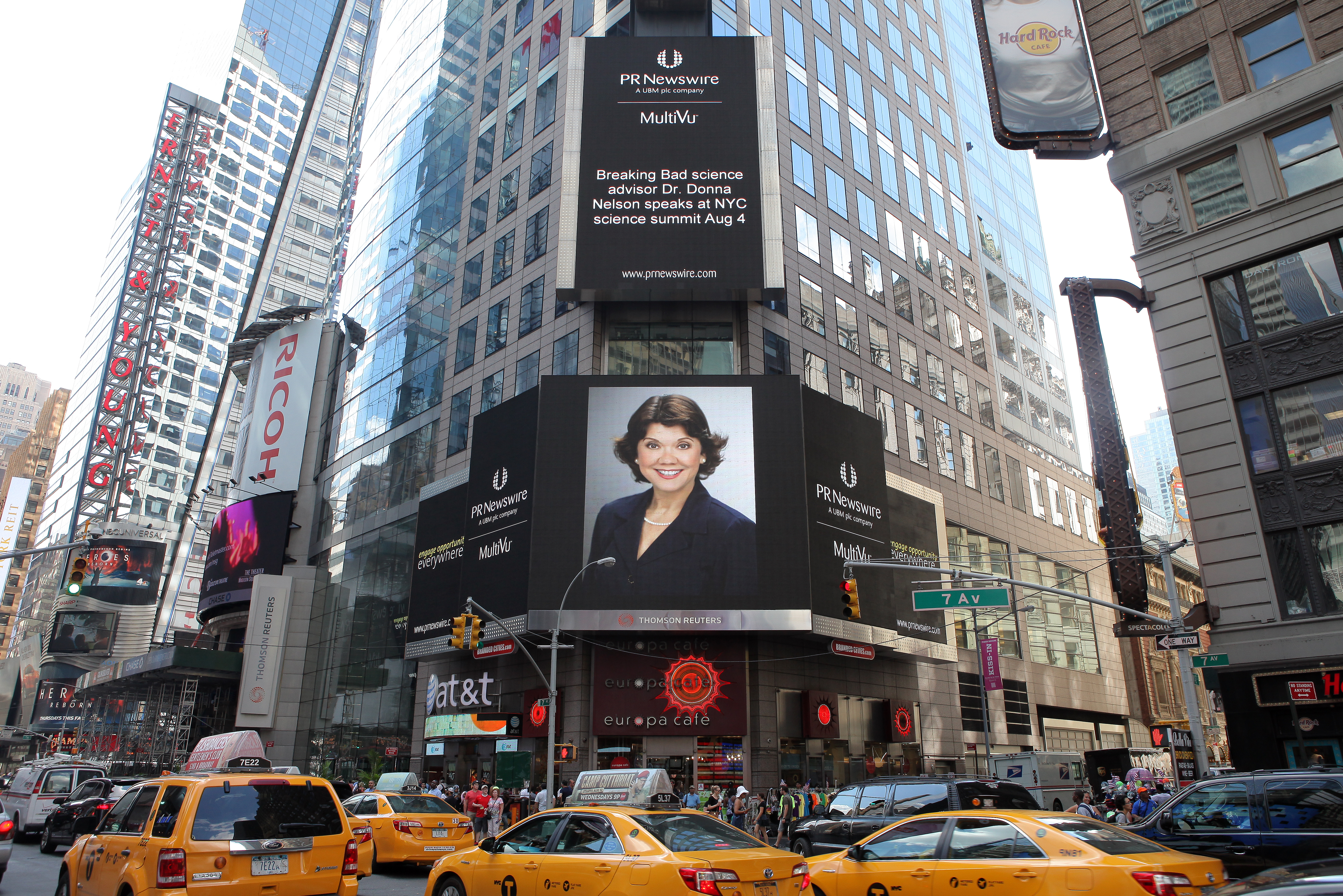 Photo of Dr. Donna J. Nelson photo shown on the JumboTron at Times Square, New York City